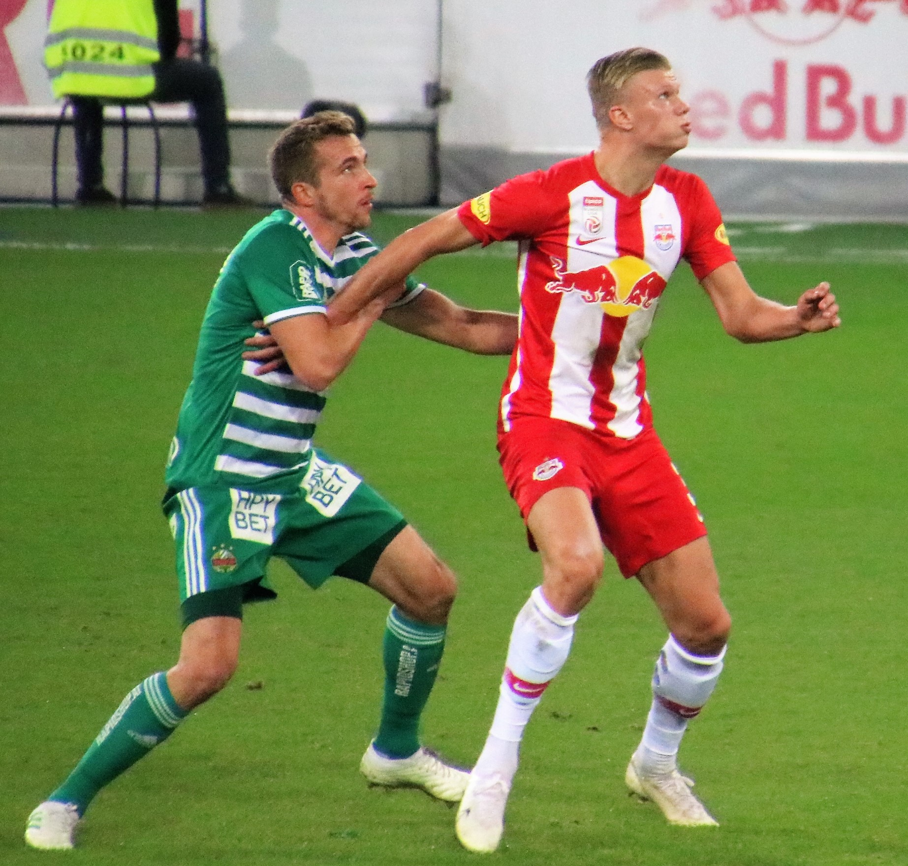 Austrian Bundesliga 12th round